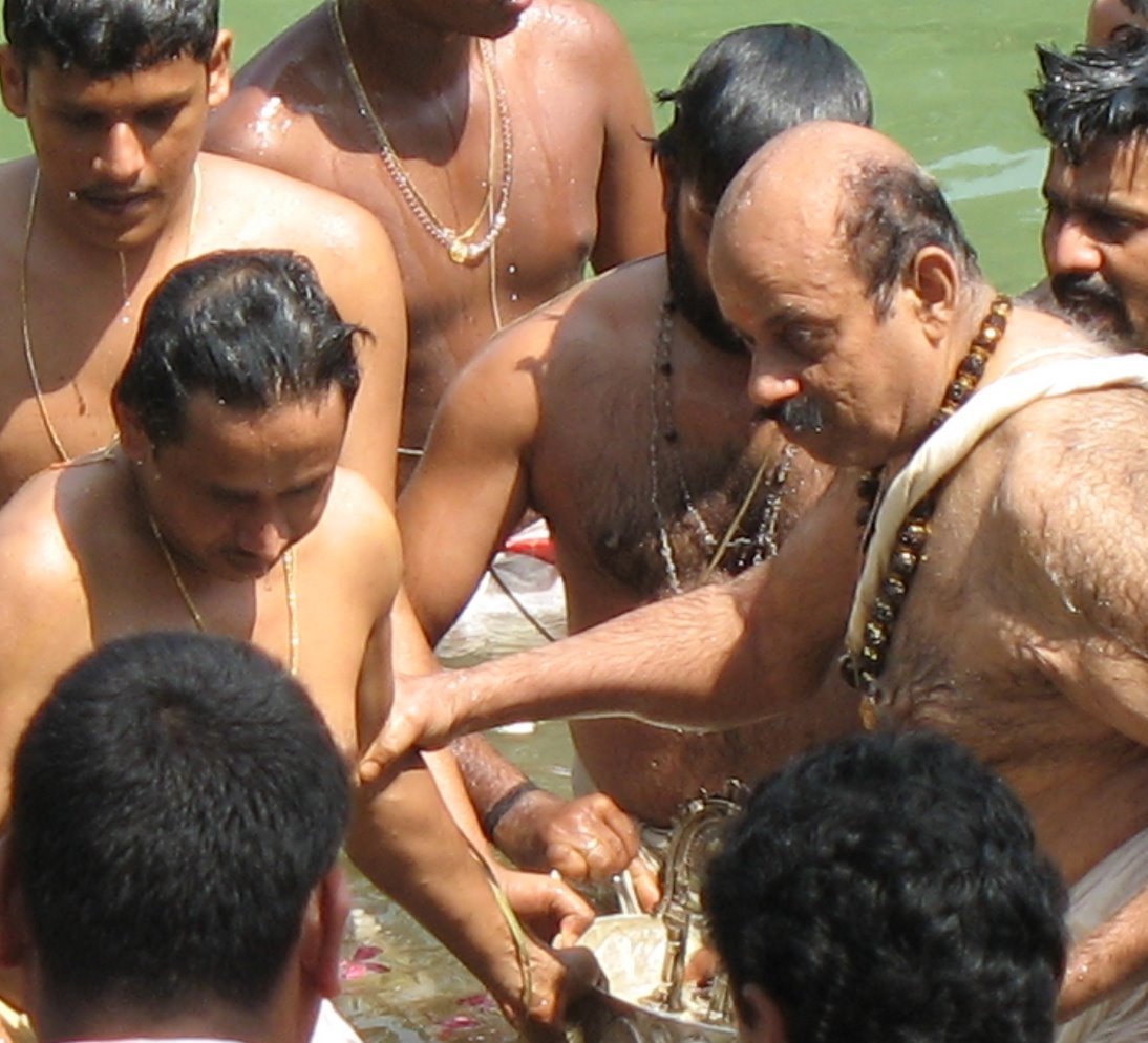 Dr. Sambasivan performing Thaipoosam aarattu.